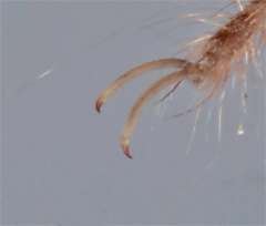 Distal end of a leg of dead Gluvia dorsalis (Arachnida: Solifugae: Daesiidae), dry collection. Two curved claws are visible. Photo taken in Madrid.